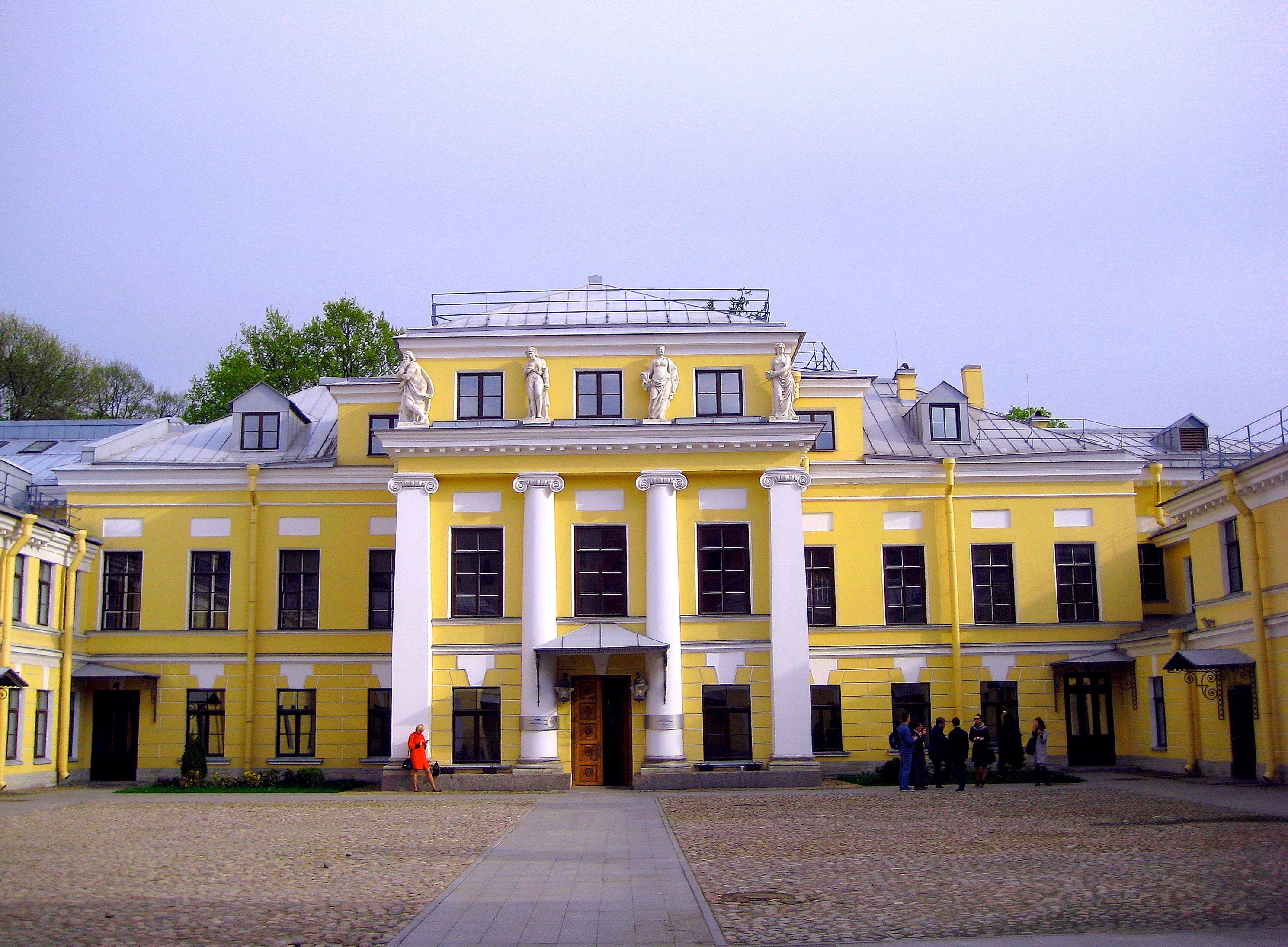 The Bobrinsky Palace (architect L. Ruska), 1790s: Galernaya Street, 58, 60. Admiralteysky District, St. Petersburg